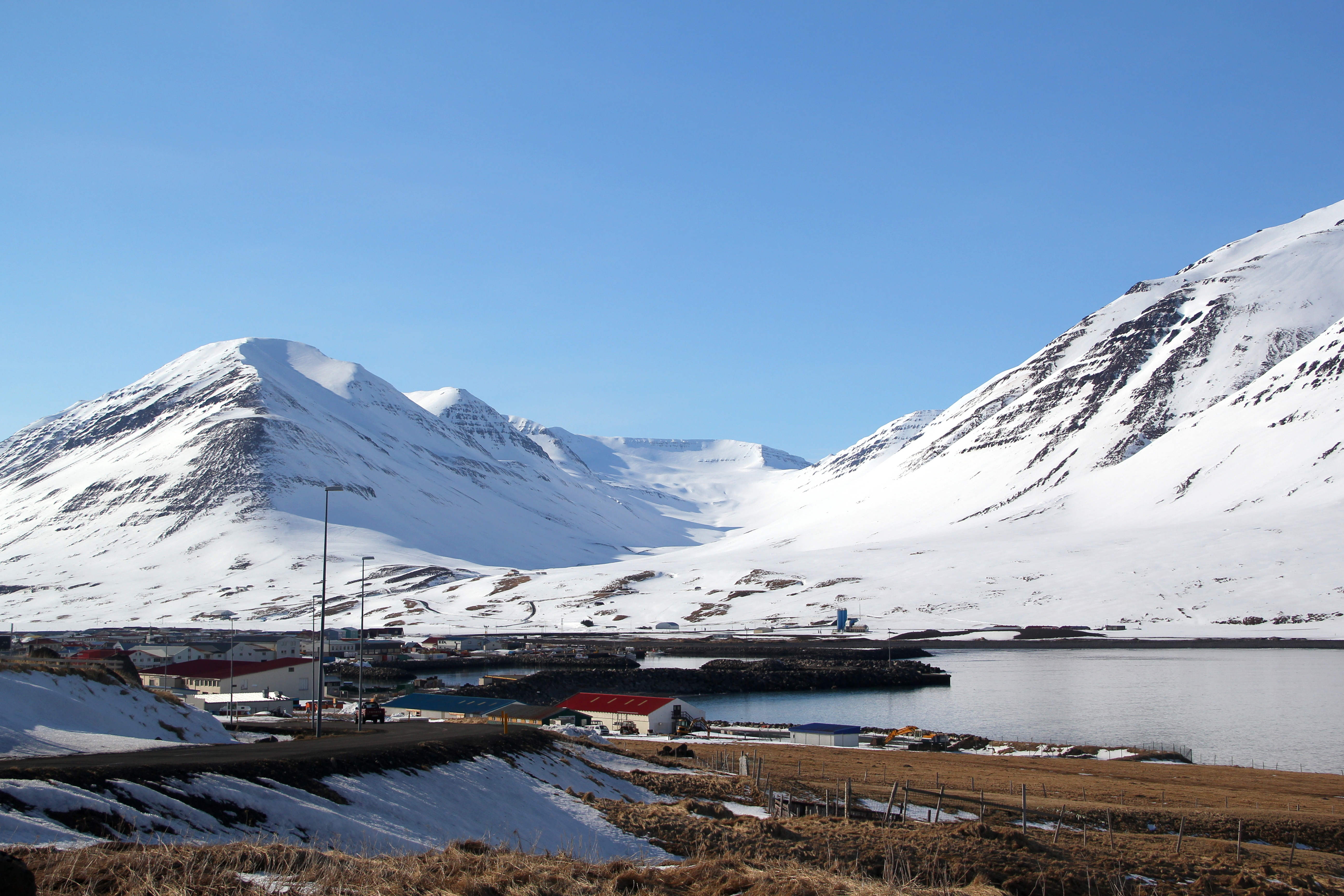 Approaching the village of Ólafsfjörður, Iceland from the north.